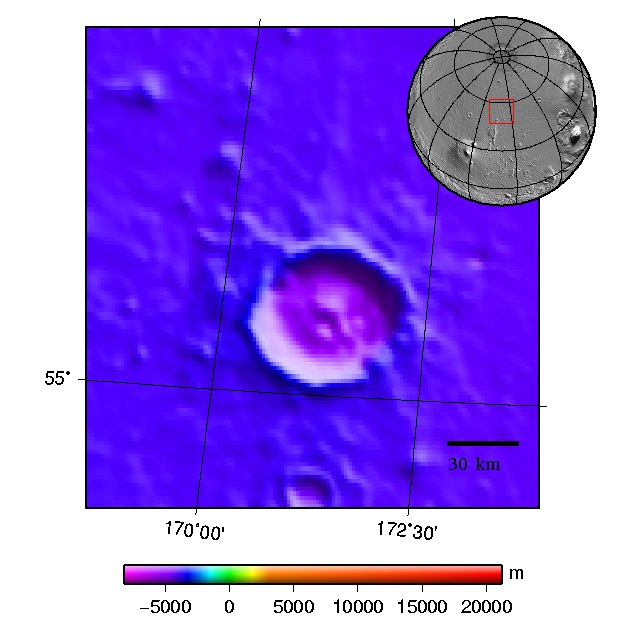 Topography map of Stokes crater on Mars